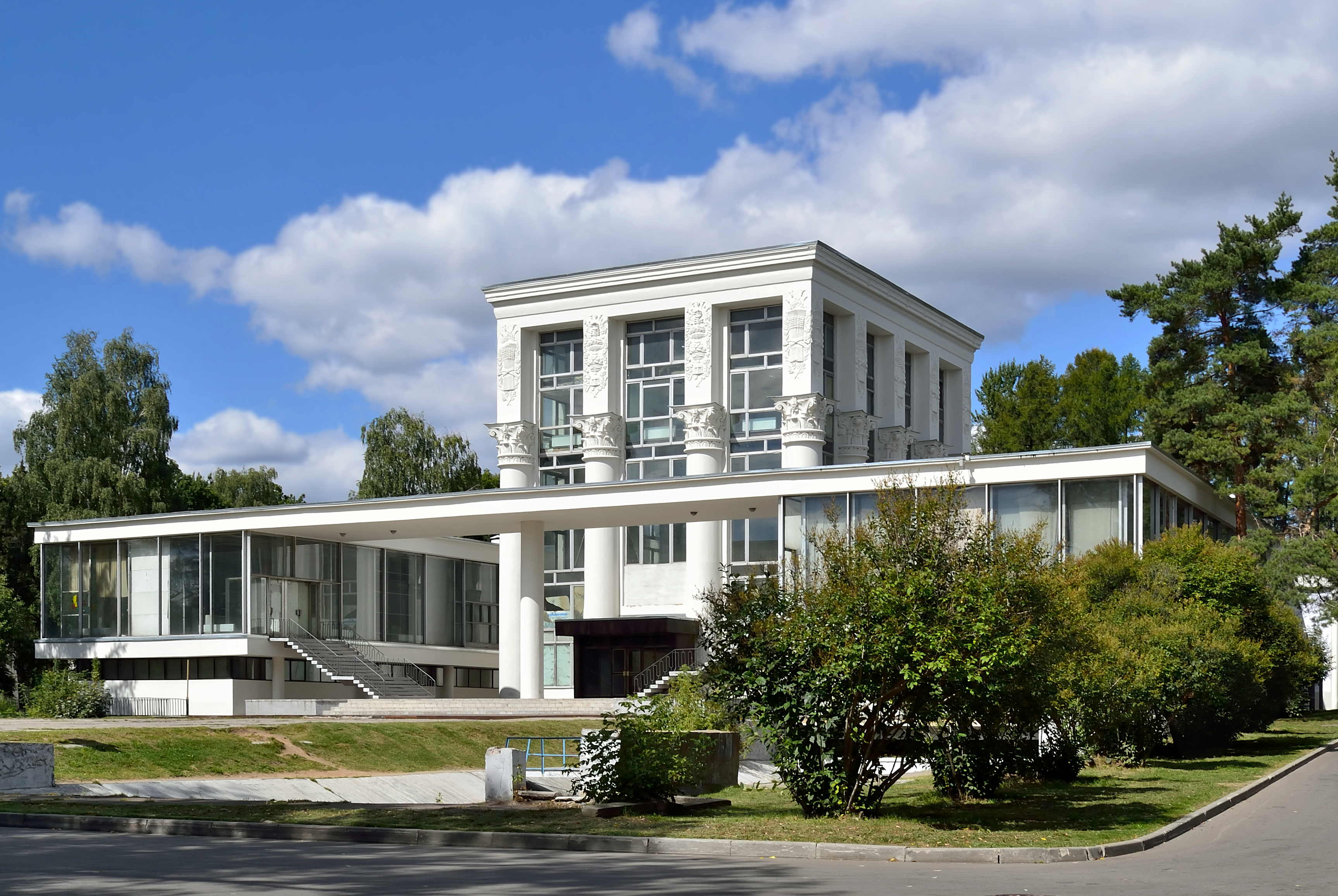 Moscow. VDNKh (the Exhibition of Achievements of the National Economy). Pavilion No. 36 Produce Processing. 1954, reconstructed in 1974—1975. A photo from the user collection VDNKh.